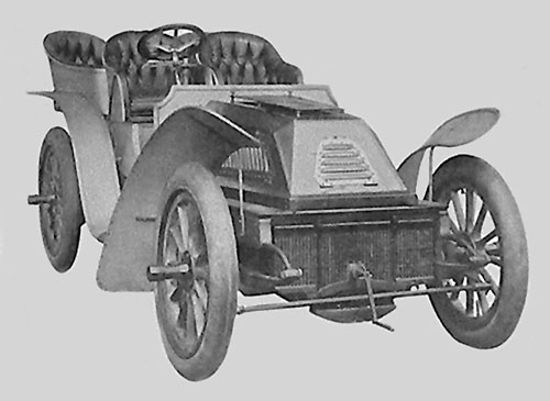 1903 Weller Four Seat Touring 20 HP